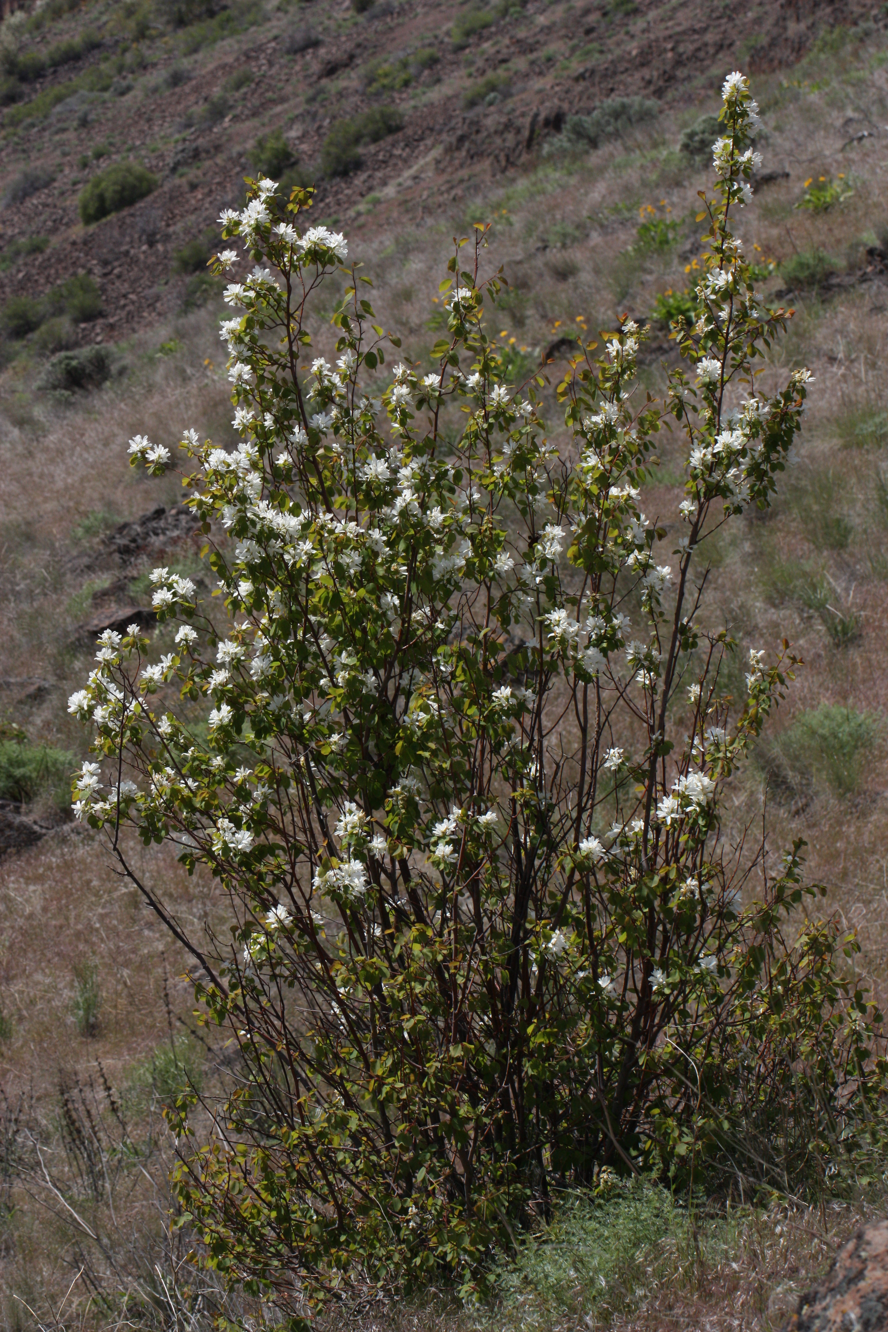 Saskatoon Serviceberry, Western Serviceberry